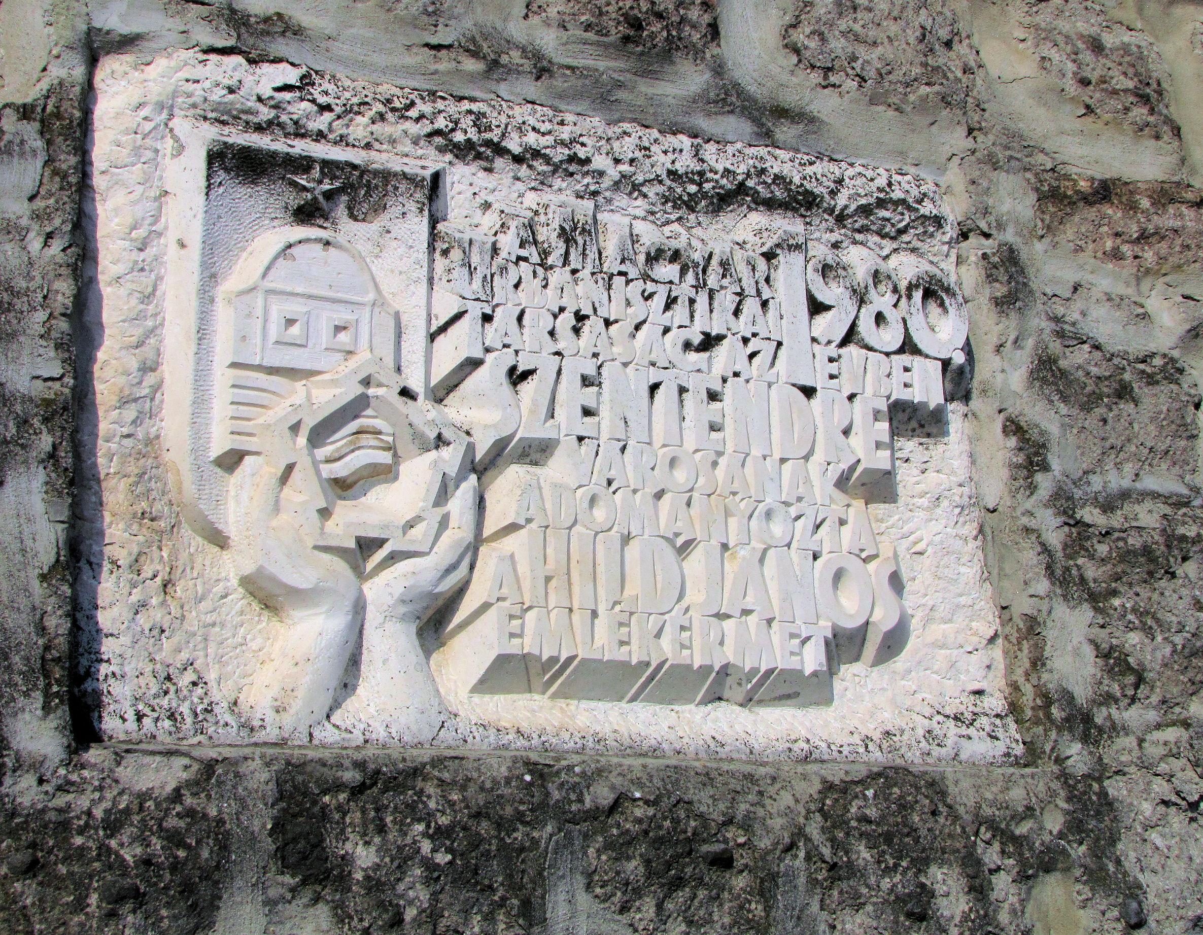 János Hild Memorial Plaque in Szentendre.